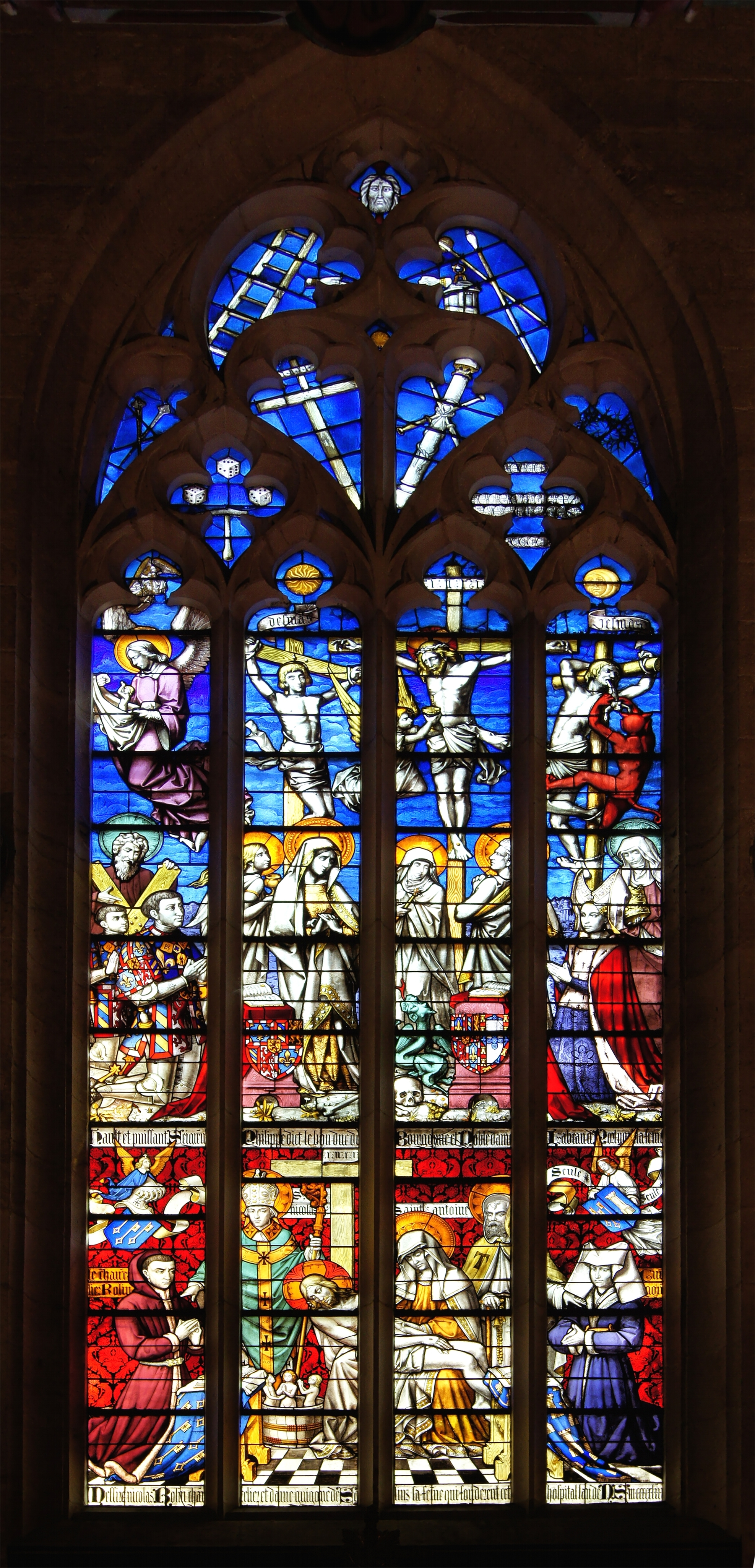 15th-century stained glass windows at the chapel of the Hospices de Beaune in Burgundy. One can see: below: a Pietà, with Chancelor Rolin and his wife Guigone de Salins (1403-1470), Saint Nicholas, and Saint Anthony the Great. in the middle: a crucifixion, with Philip the Good, duke of Burgundy, and his wife Isabella of Portugal. above: the Instruments of the Passion of Christ, in order that patients of the hospital remember the sufferings of Christ.